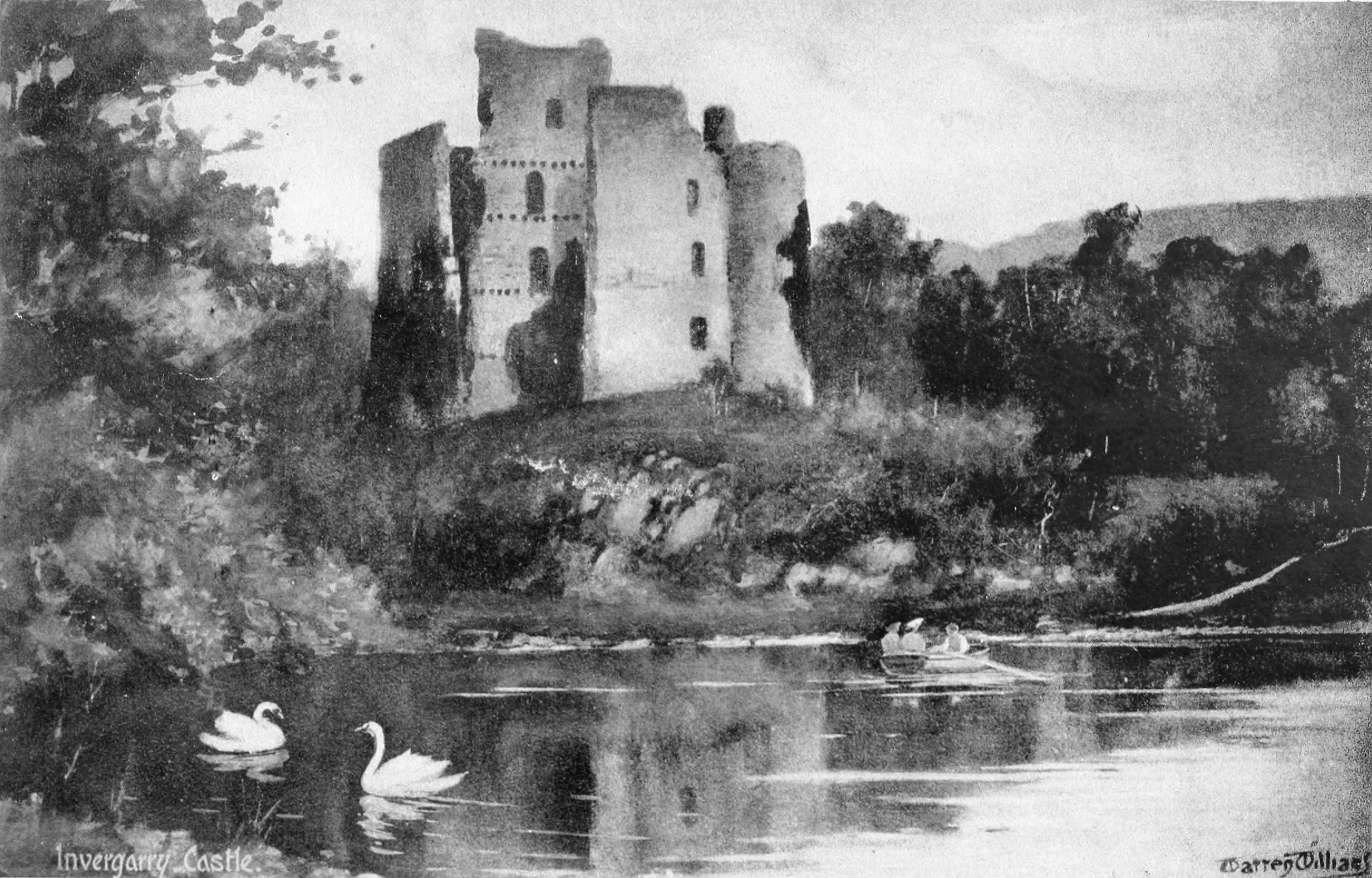 Invergarry Castle in the Scottish Highlands was the seat of the Chiefs of the Clan MacDonnell of Glengarry, a powerful branch of the Clan Donald. The castle's position overlooking Loch Oich on Creagan an Fhithich - the Raven's Rock - in the Great Glen, was a strategic one in the days of clan warfare. It is not certain when the first structure was erected on Creagan an Fhithich but there are at least two sites prior to the present castle.